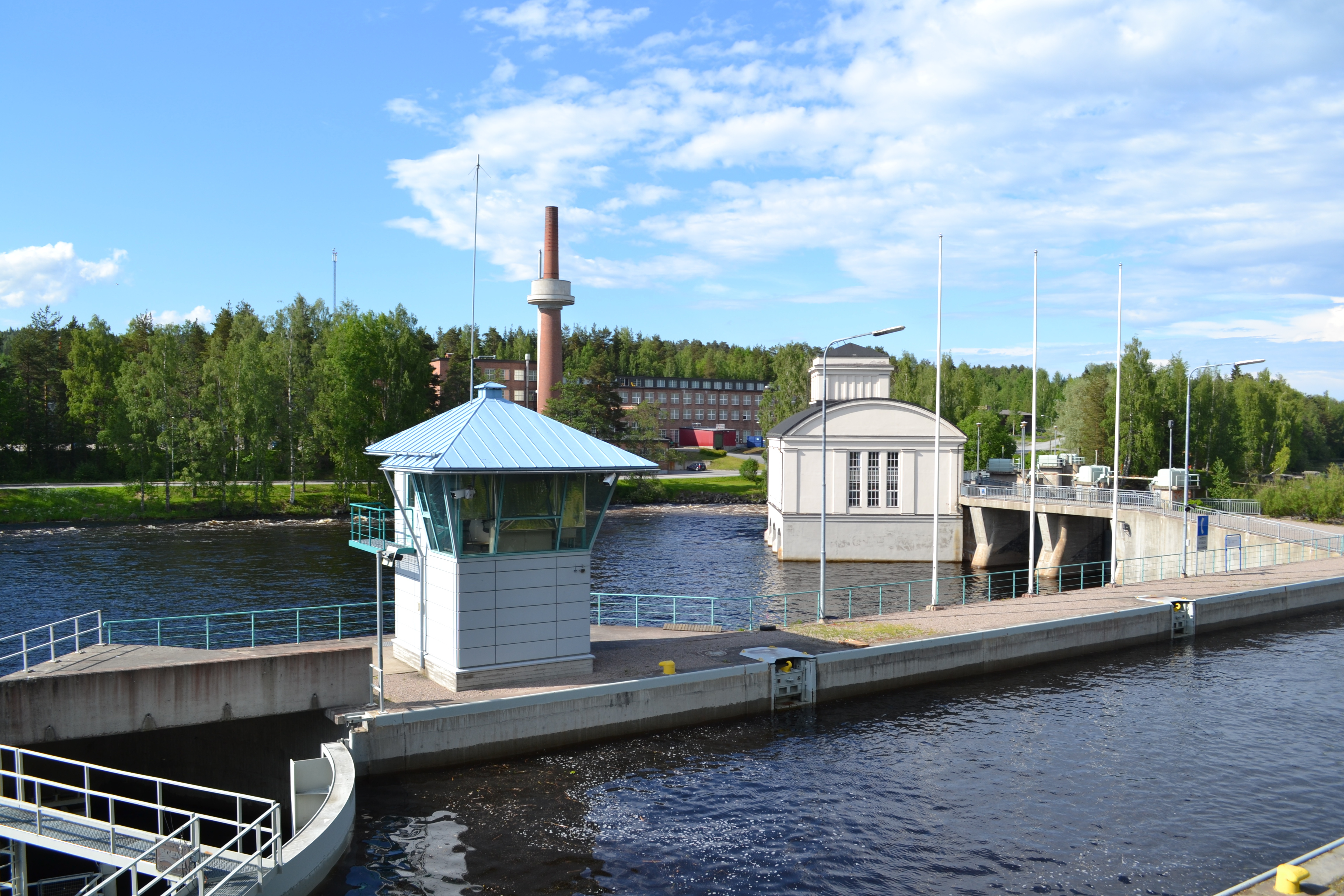 Vaajakoski canal, Vaajakoski old power plant and Vaajakoski industrial house